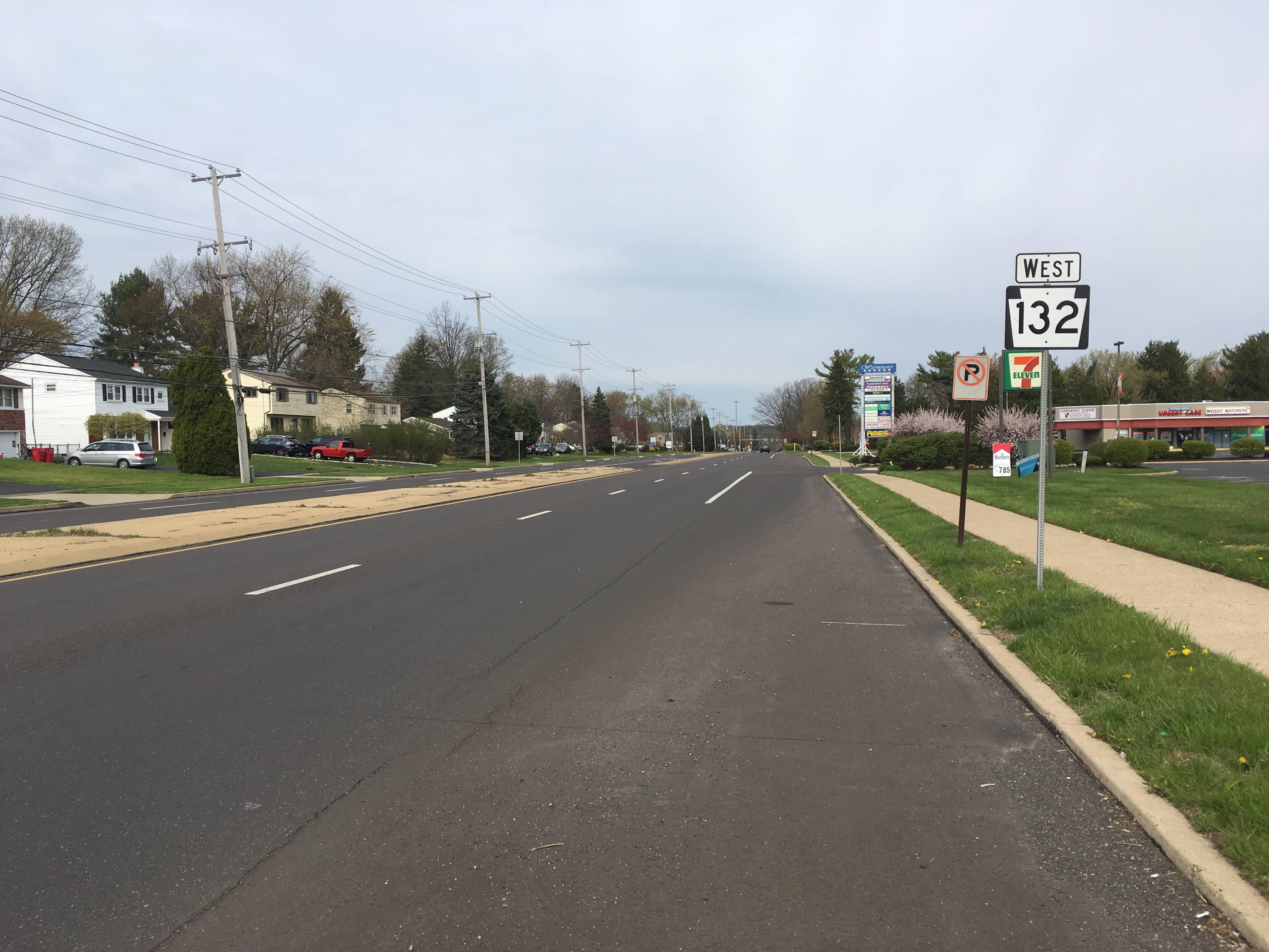 Westbound Pennsylvania Route 132 (Street Road) past the intersection with St. Davids Avenue/Cooper Drive in Warminster Township, Pennsylvania